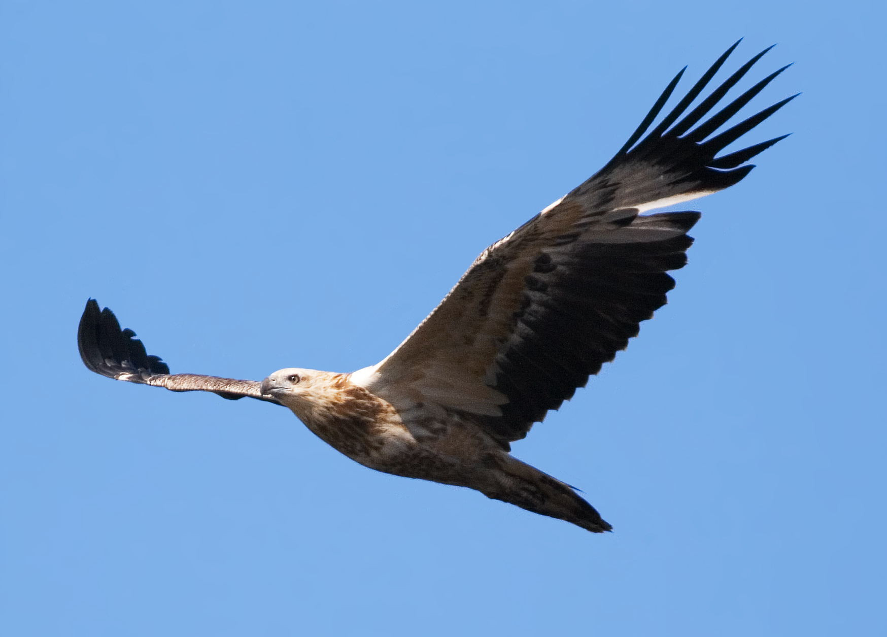 Juvenile White-bellied Sea-eagle (Haliaeetus leucogaster) over the Derwent River, Hobart, Tasmania, Australia Camera data Camera Canon EOS 400D Lens Canon EF 400mm f5.6L Focal length 400 mm Aperture f/5.6 Exposure time 1/2500 s Sensivity ISO 400